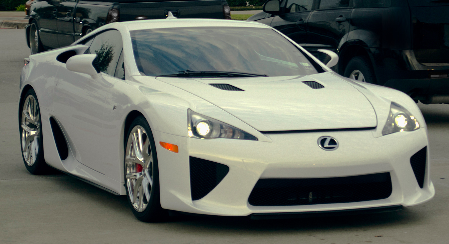 Houston Coffee and Cars December 2011